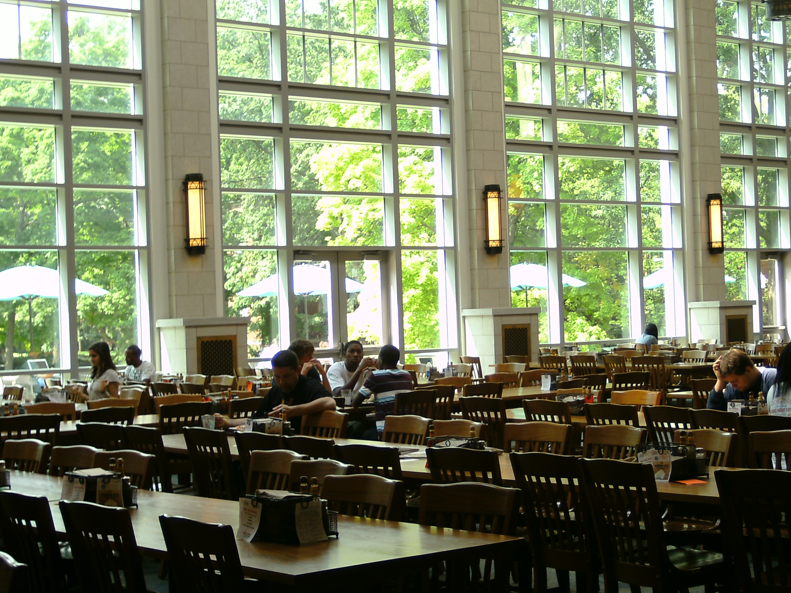 Commons.